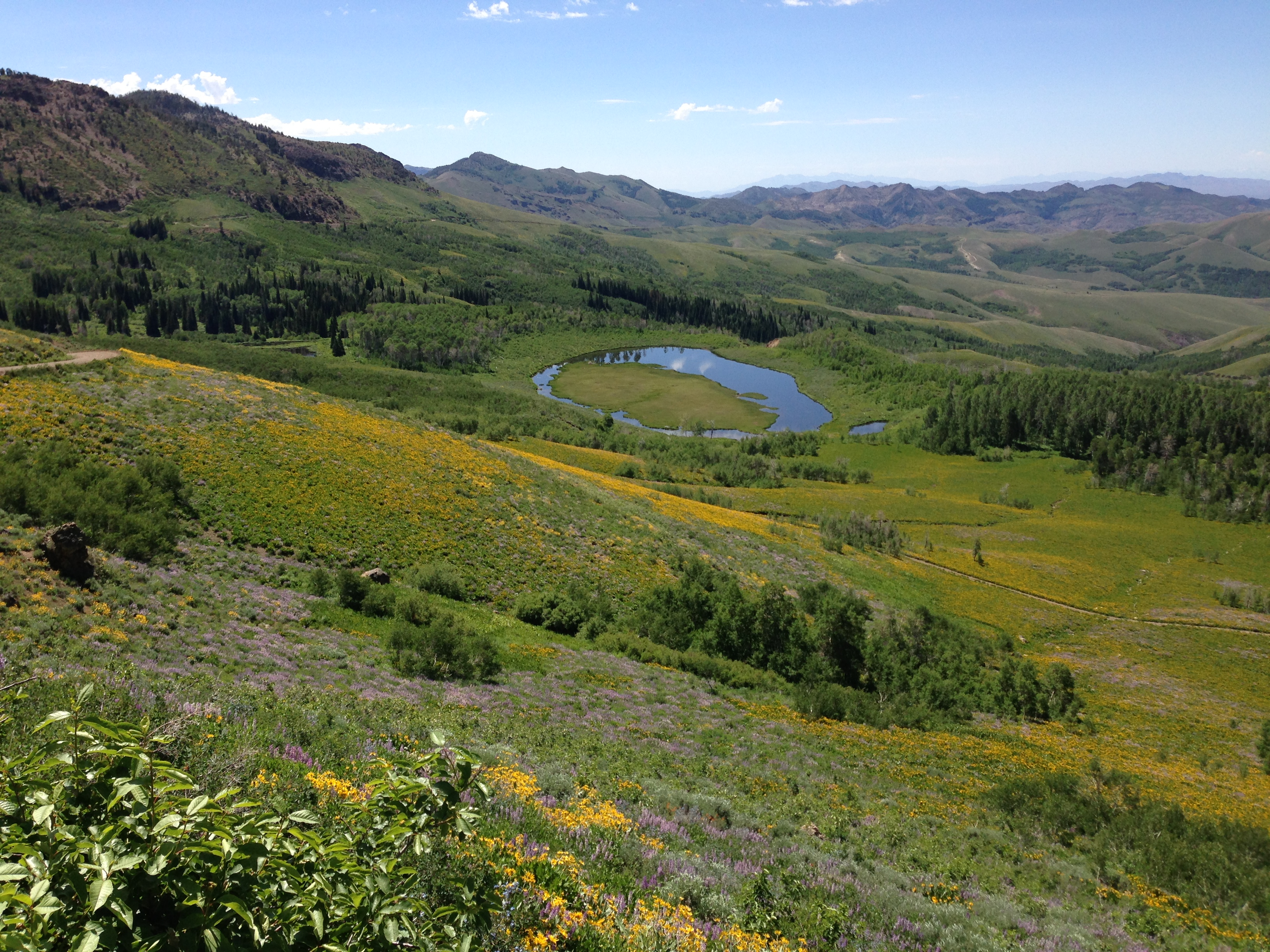 Wildflowers in the upper portion of Copper Basin, Nevada